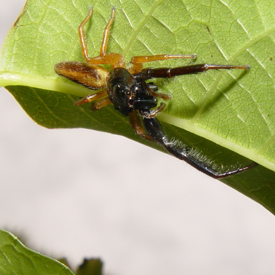 The jumping spider Trite planiceps, Photograph taken in Lower Hutt, New Zealand